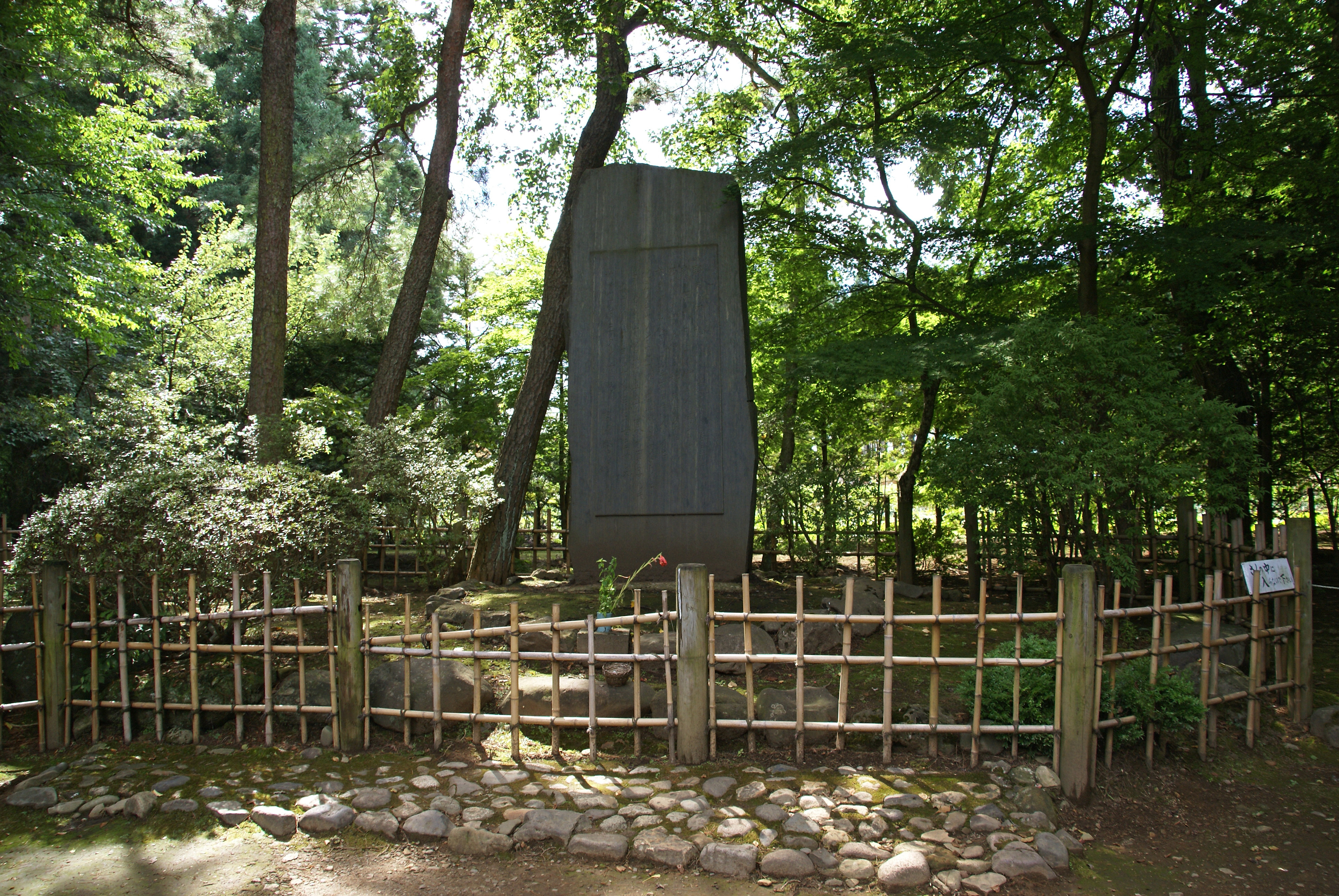 The stela of Kenji Miyazawa in Hanamaki, Iwate prefecture, Japan